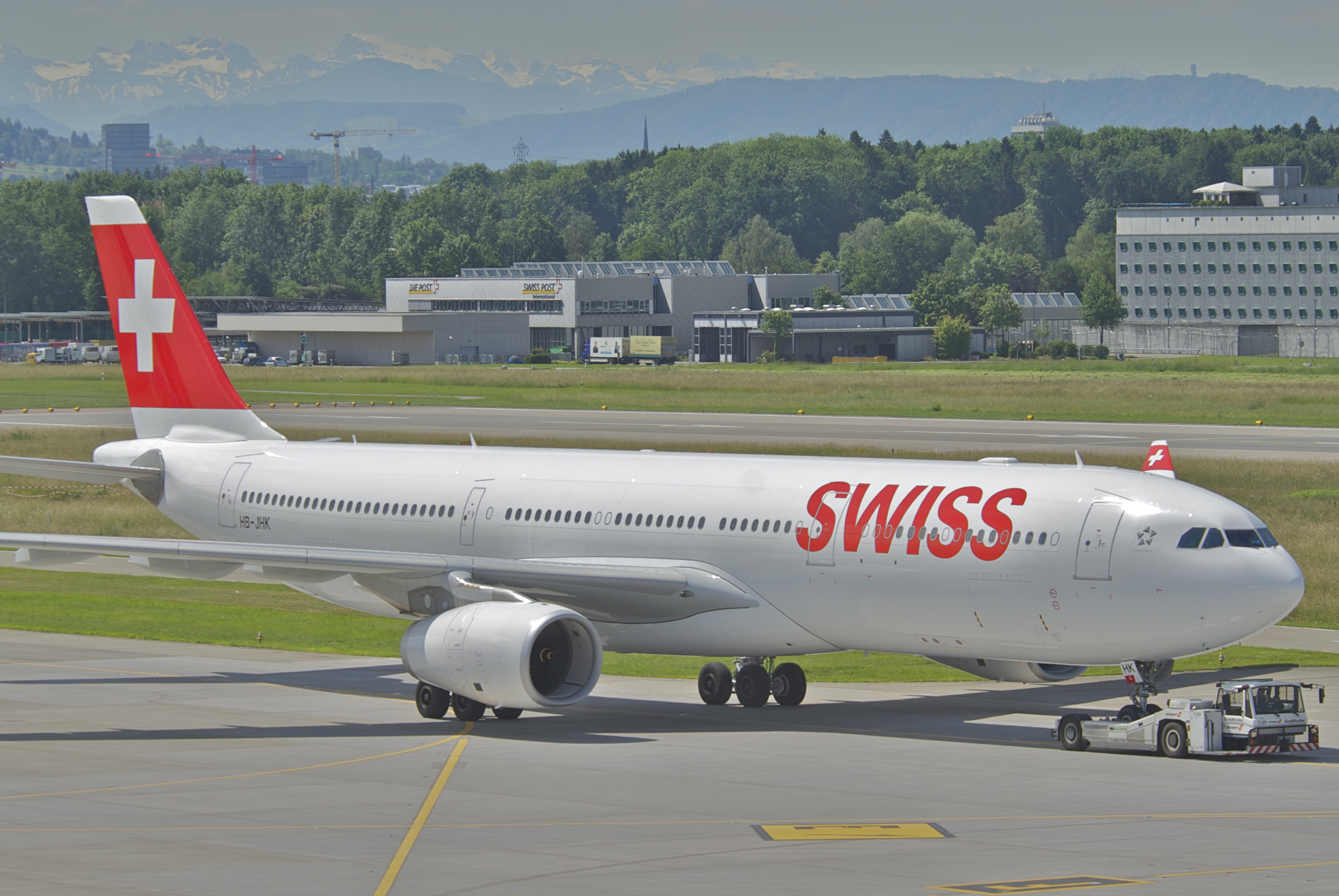 Swiss Airbus A330-300; HB-JHK@ZRH;15.06.2012/656cf